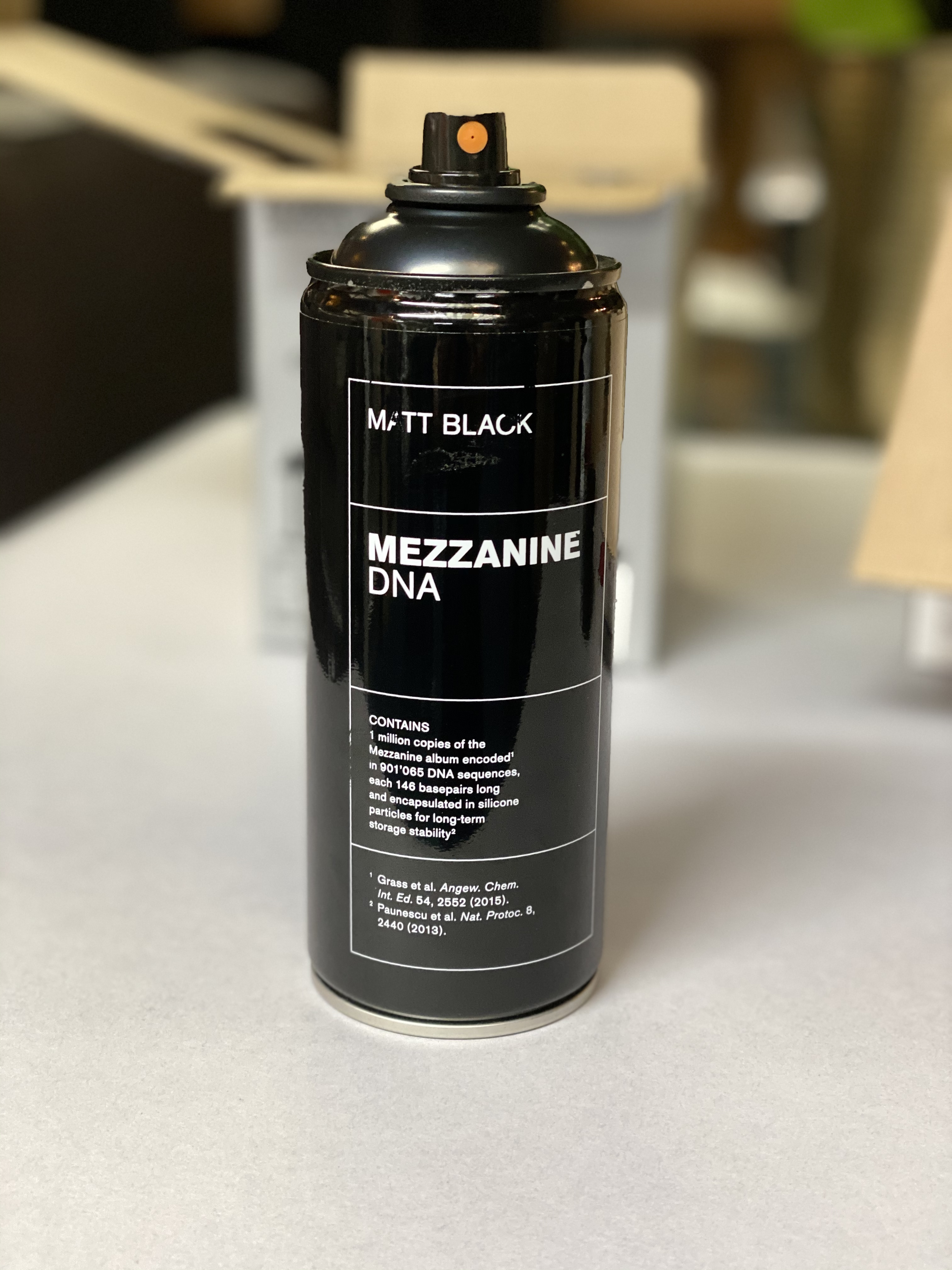 Mezzanine DNA spray can in matt black